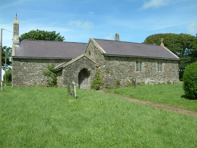 St David's Church, Brawdy, Pembrokeshire The church records state that St David's church was built in 1326, and despite refurbishments in 1879, 1901, and 1990 much of the building is original 14th century.